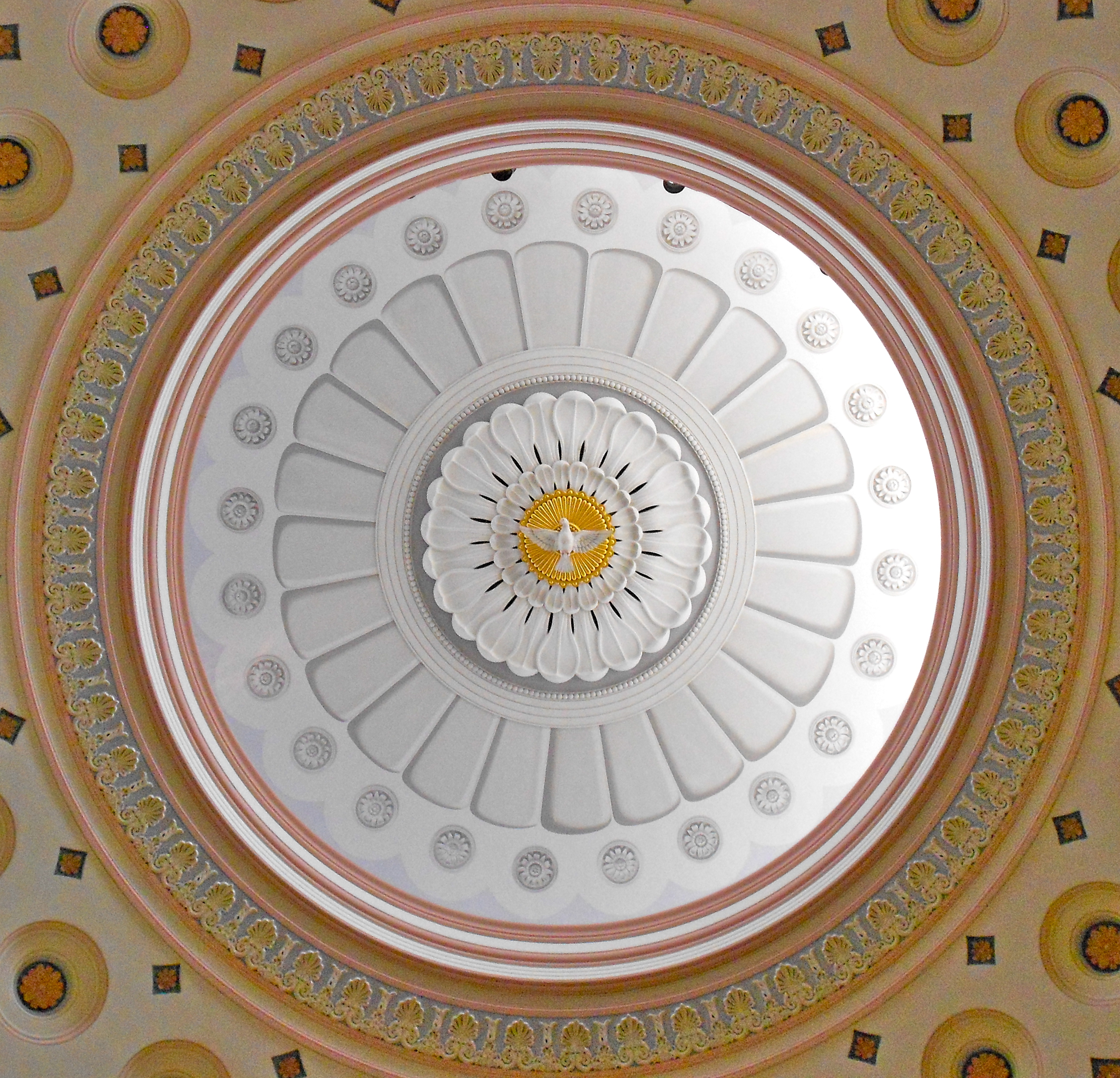 Oculus in the Baltimore Basilica on Cathedral Street in Baltimore, Maryland